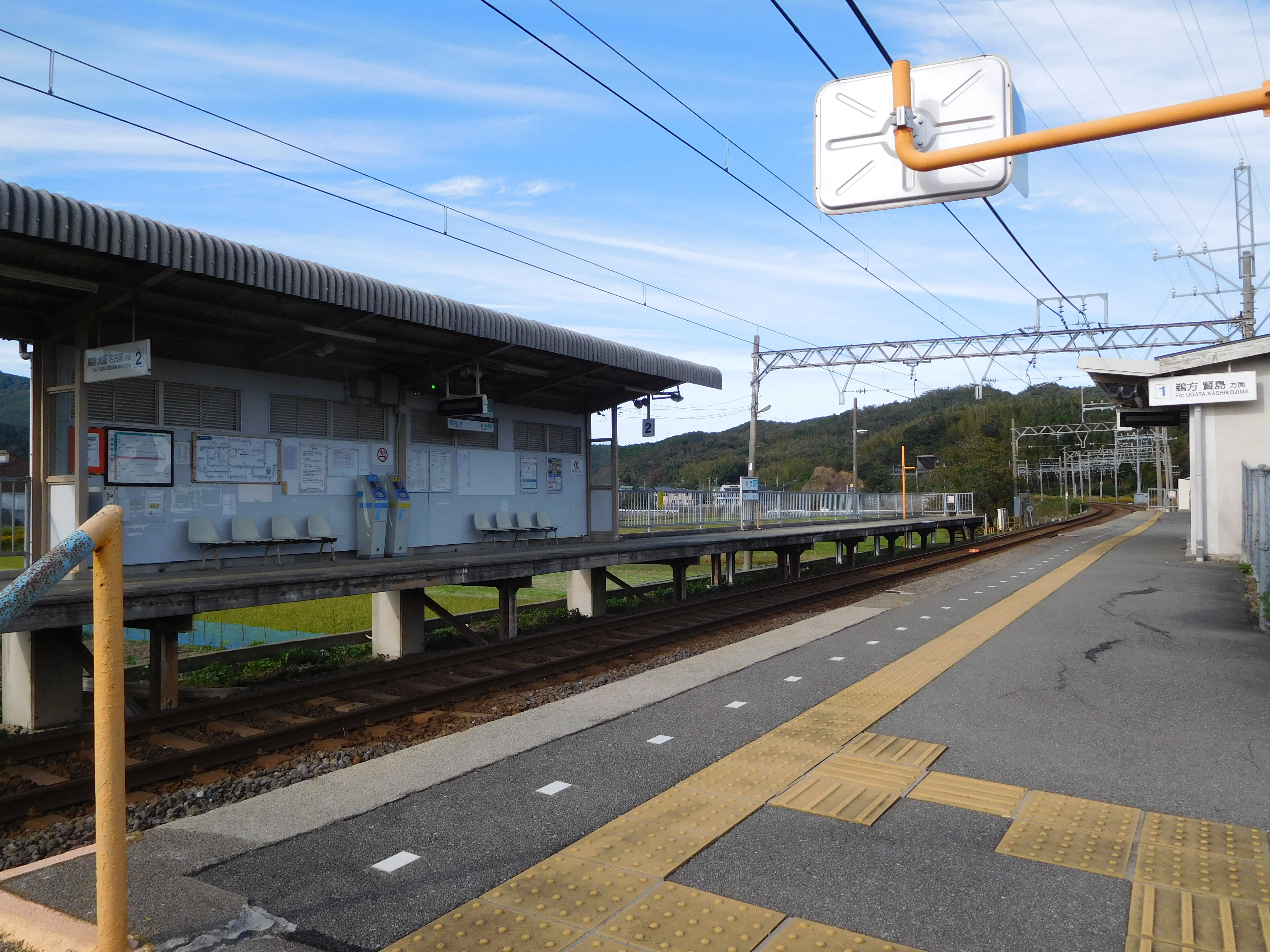 This is Kintetsu Kamo station in Toba, Mie, Japan.